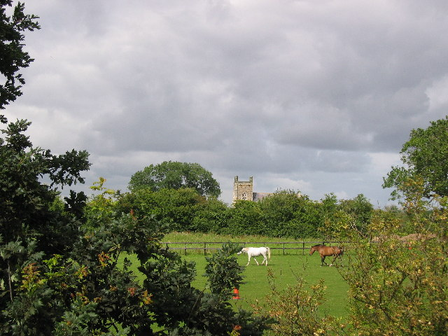 Long Riston, East Riding of Yorkshire, England.This view from near the A165 (TA1394330) which passes to the west of the village. This is an old established farming community with some new housing.